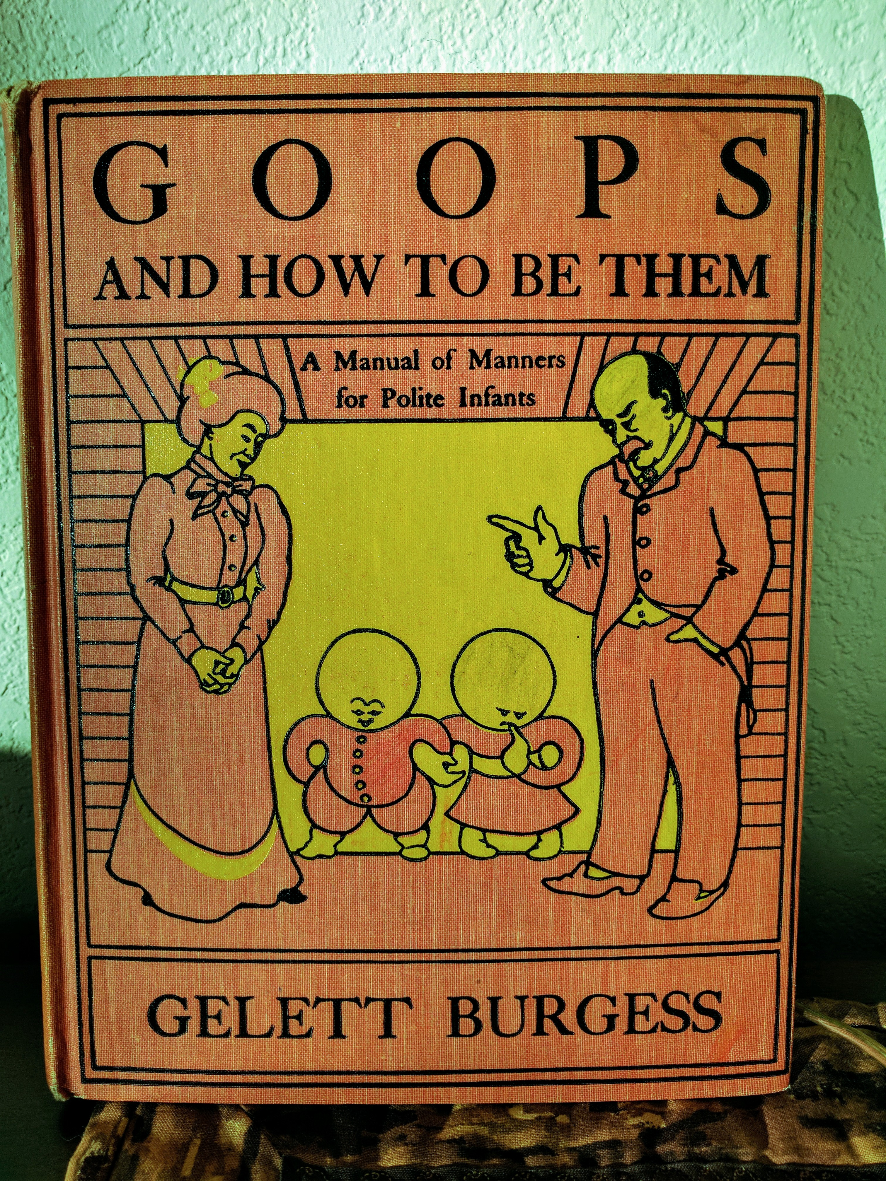 book by Gelett Burgess copyright 1900 in the USA